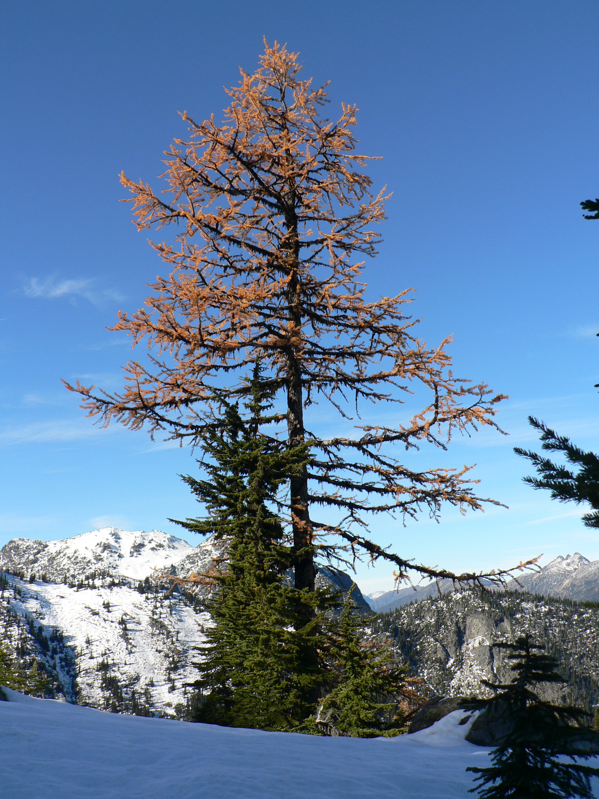 Subalpine Larch